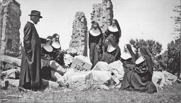 Jesuit priest Pater Fredrick Hugo Eberschweiler S.J. (1839–1918) and several Ursuline nuns survey the ruins of the boys' school and dormitory at St. Peter's Mission near Cascade, Montana, in the United States around 1887. The mission was founded by Roman Catholic priests belong to the Society of Jesus (Jesuits) in 1881. The boys' school building was constructed in 1887. This four-story stone building featured a mansard roof, dormers, and square cupola above the front entrance. The building contained dormitory space for male students, classrooms, a smithy, a cobbler shop, a carpentry shop, and a dining room. A three-story wood frame priests' residence with centrally-placed square cupola was attached to the boys' school on the south. A kitchen garden was planted west and south of these buildings. This structure and the wooden priests' residence next to it burned to the ground in January 1908. The mission was abandoned in 1918 after the Ursuline convent burned.